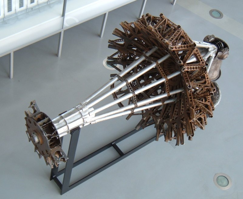 Frontmost portion of the bow of the LZ 130 Graf Zeppelin in the Zeppelin Museum Friedrichshafen. Photographed by Willy Logan, July 28, 2006.